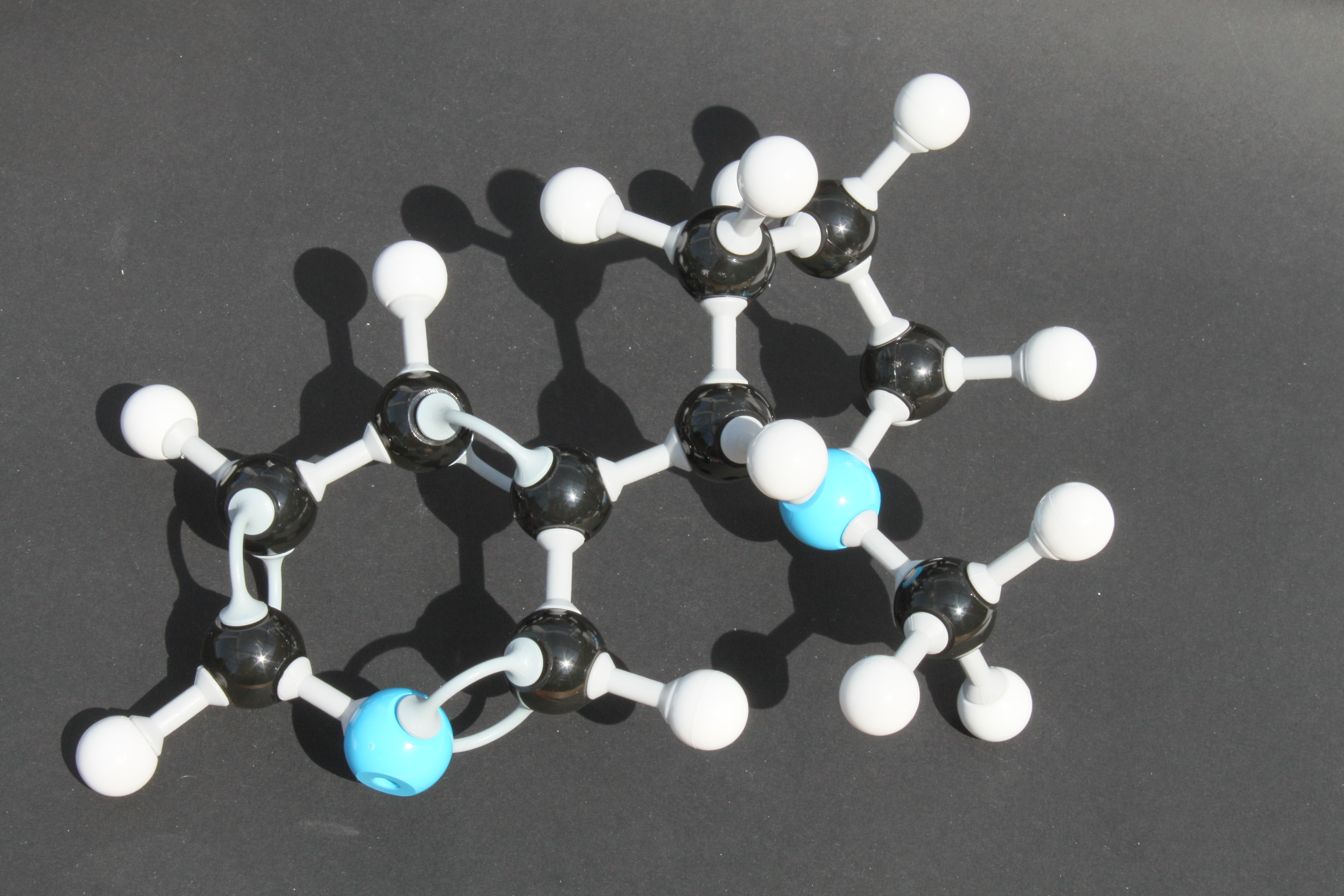 Chemical structures constucted with Prentice Hall Molecular Model Set for General Organic Chemistry